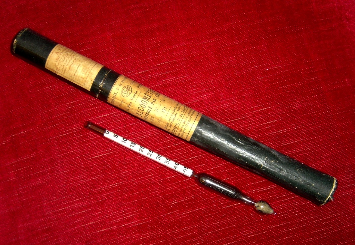 Old Alcoholmeter, begin of the 20th century, France.